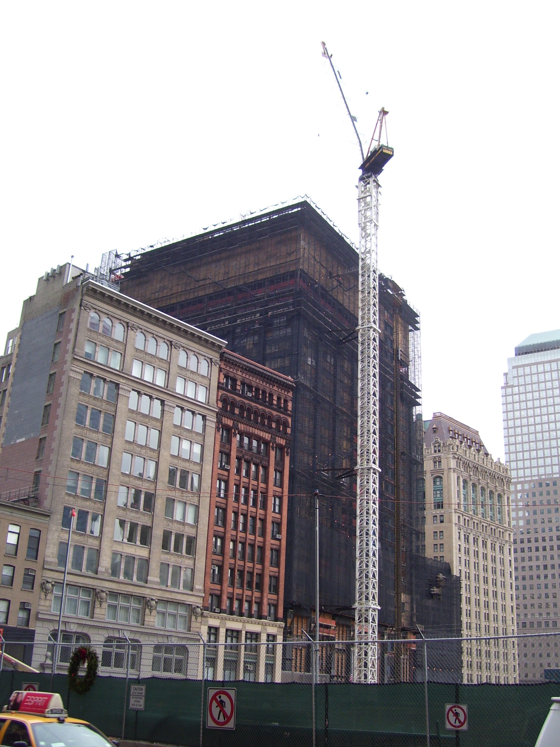 Deutsche Bank building, New York, undergoing deconstruction